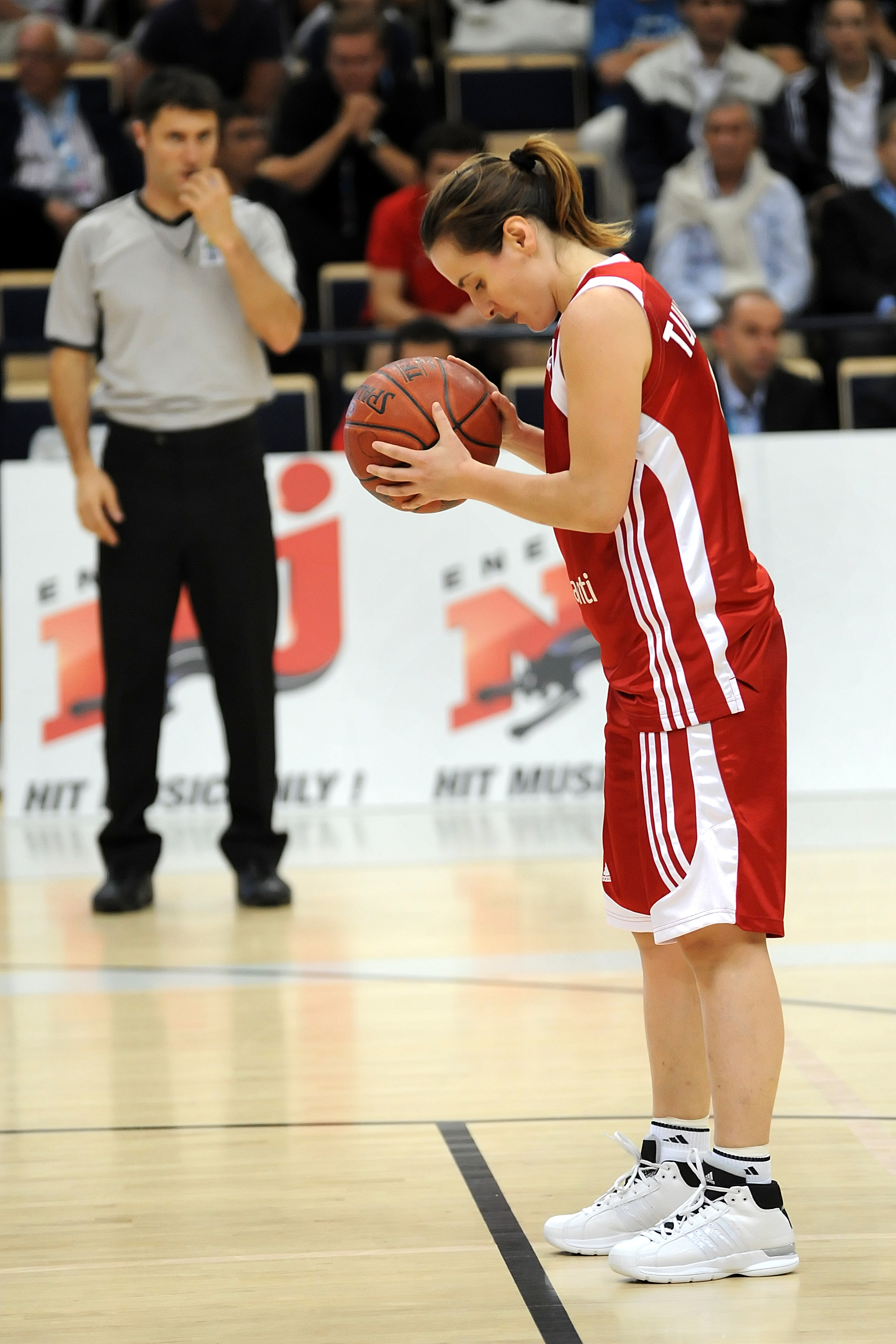 Turkish basketball player Esmeral Tunçluer in the game against Finland.